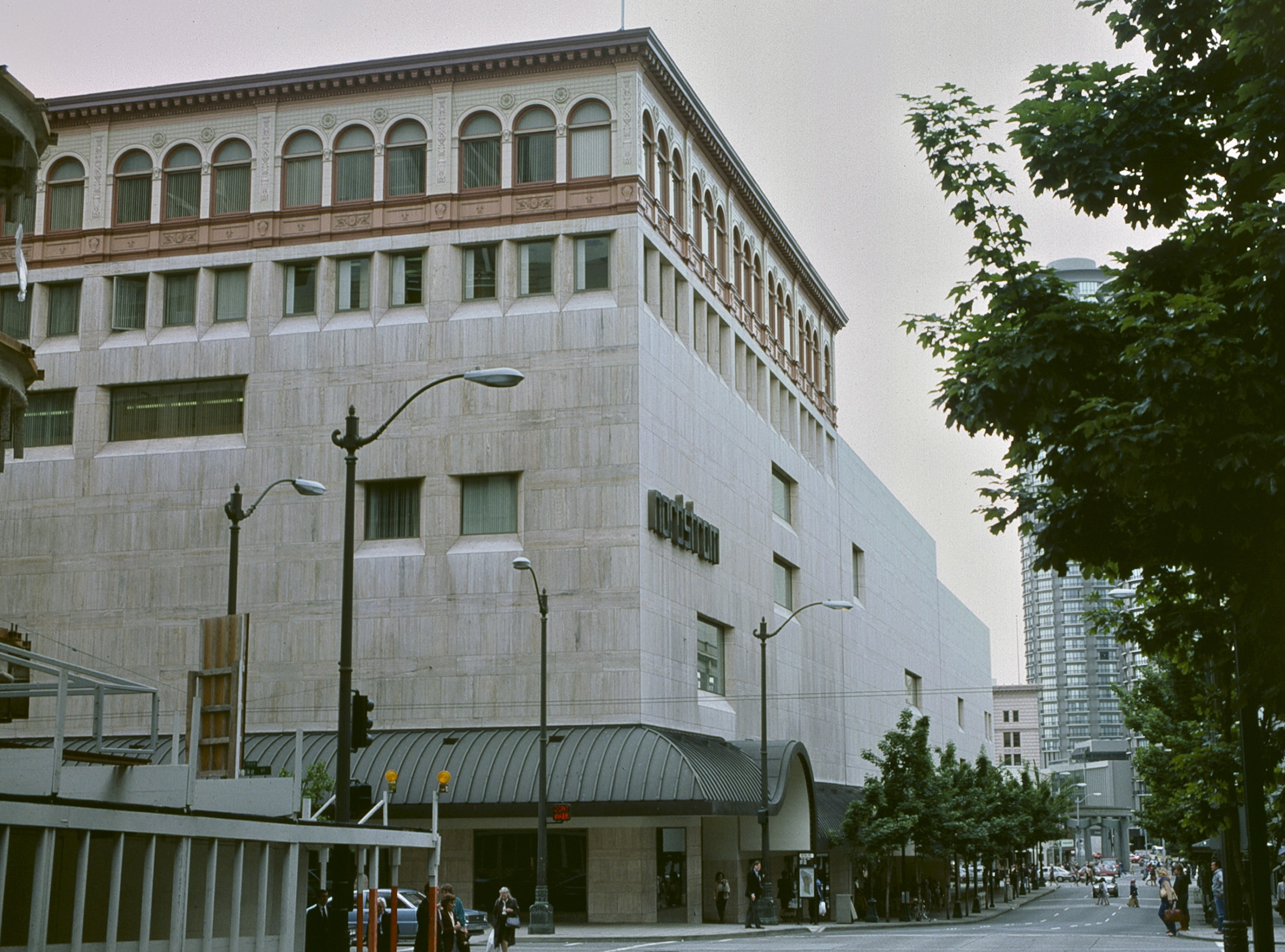 The downtown Seattle Nordstrom store at its former location, at Fifth & Pike, before its 1998 move to the former Frederick & Nelson building. This was the location of the store from 1973 to 1998. The building, at 1505 Fifth Avenue, dates to 1926, but the lower portion was heavily rebuilt by Nordstrom. This view is looking north on Fifth Avenue across Pike Street.